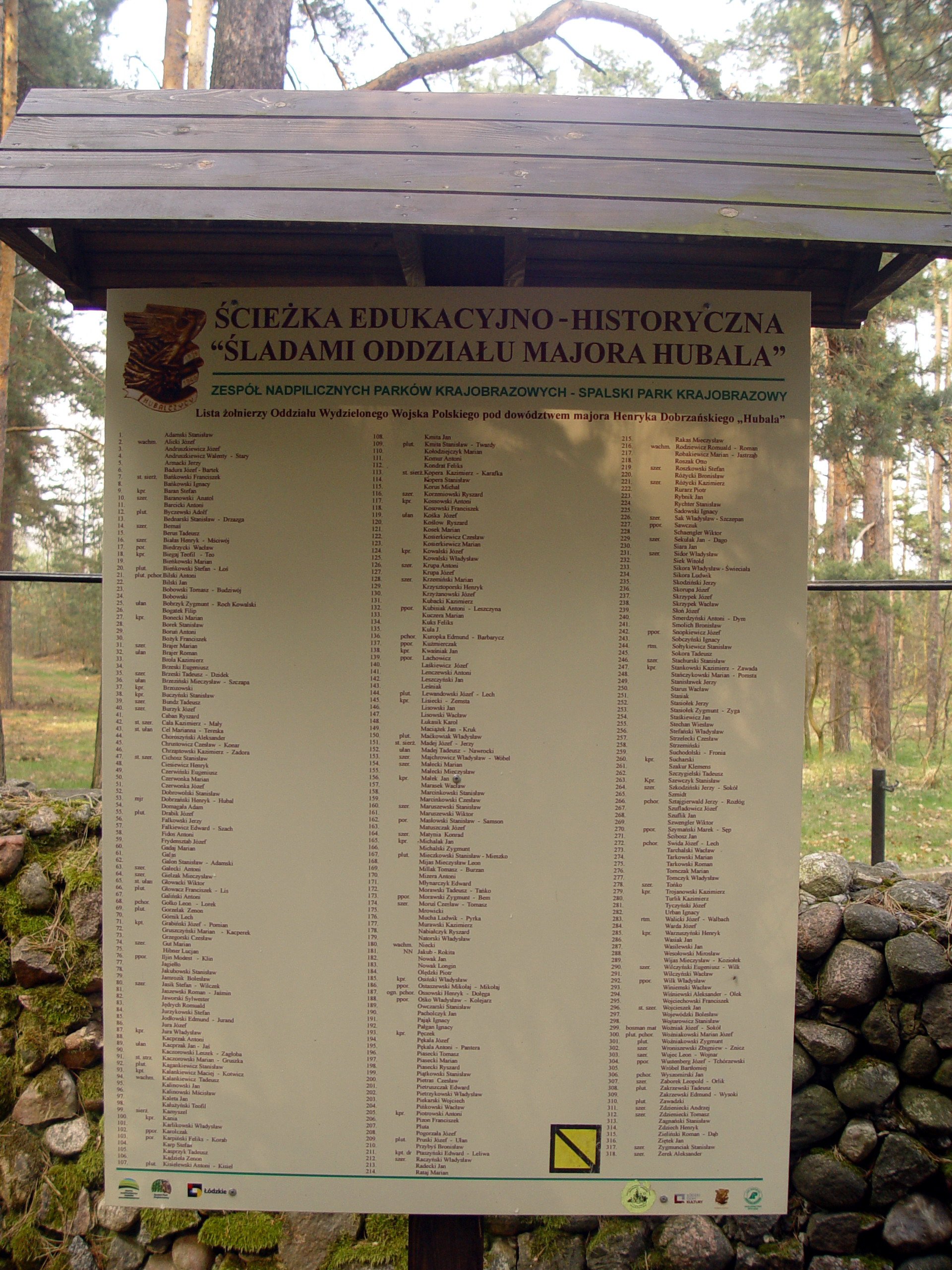 Szaniec Hubala k.Anielina